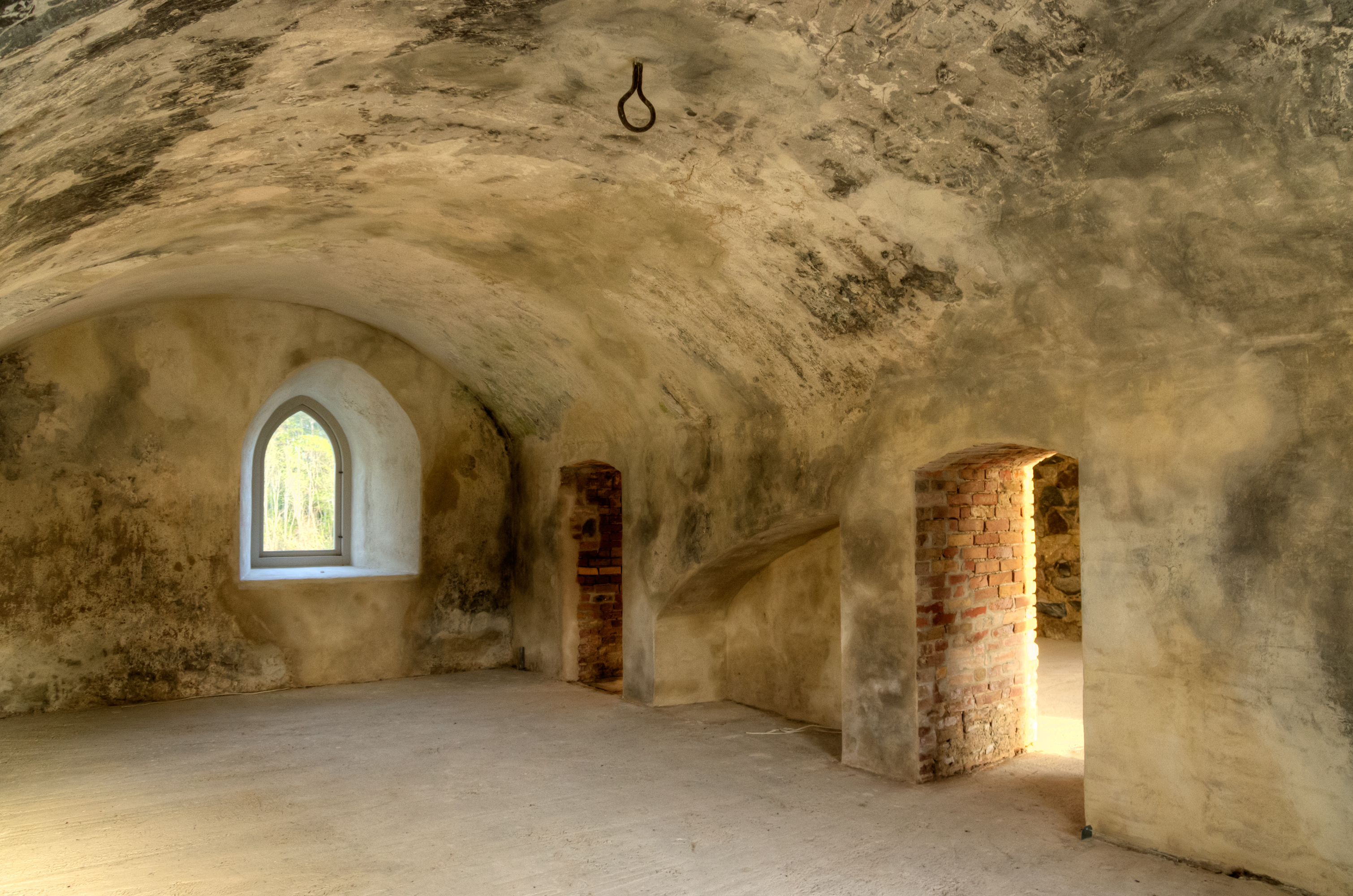 Interior of dairy in Esna Manor